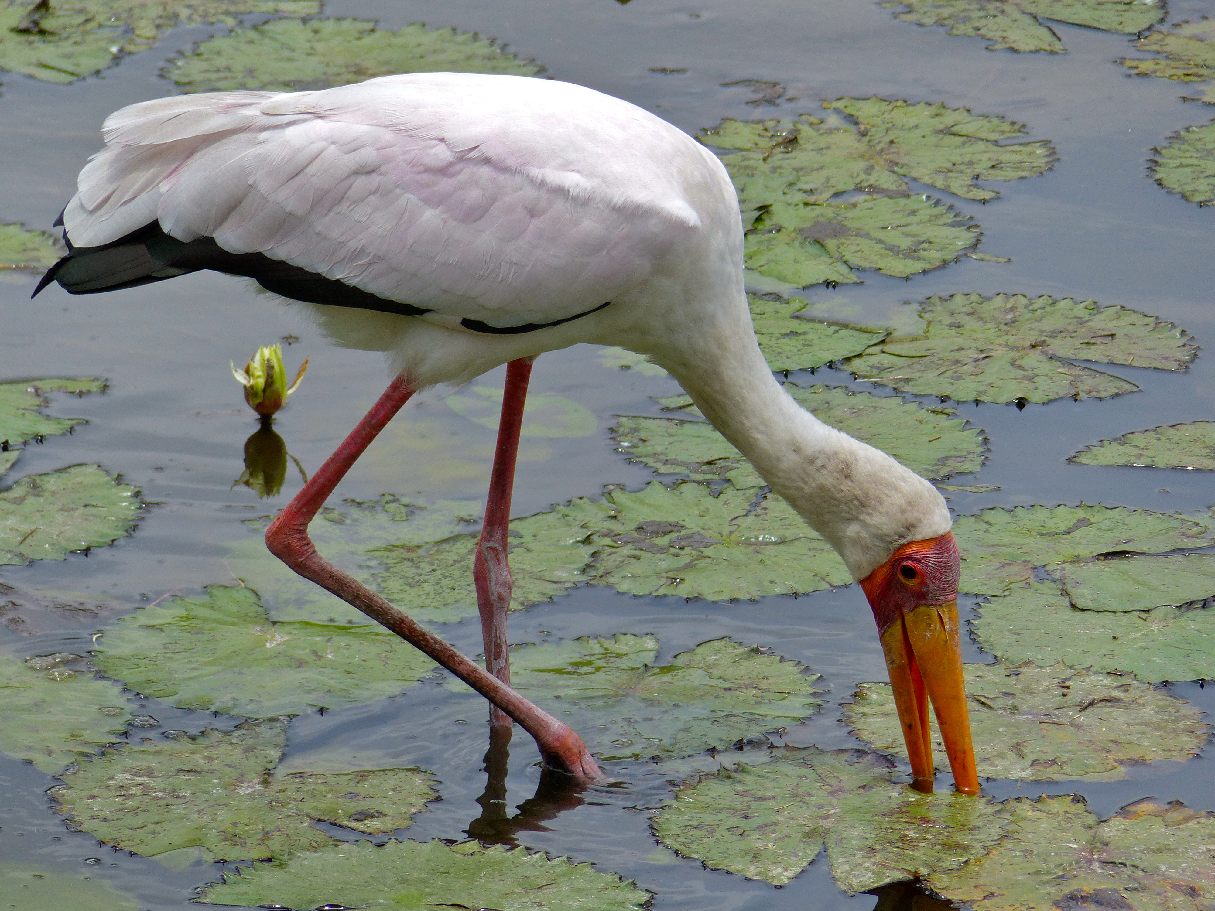 Sweni Waterhole, S137 Road East of Satara, Kruger NP, SOUTH AFRICA